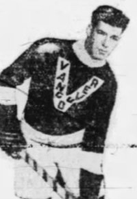 Canadian ice hockey player Abbie Newell with the Vancouver Maroons in 1922–23.